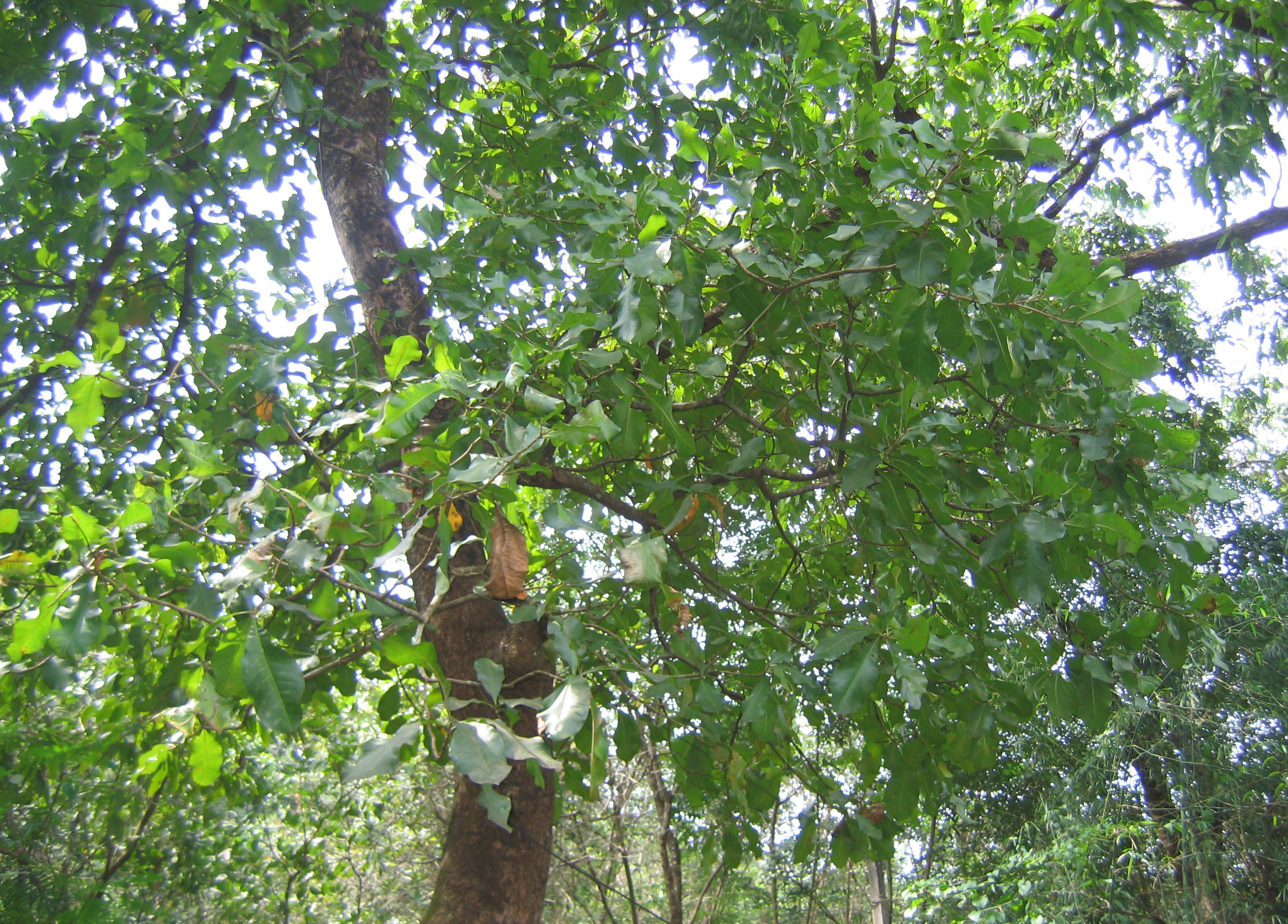 Careya arborea - പേഴ്